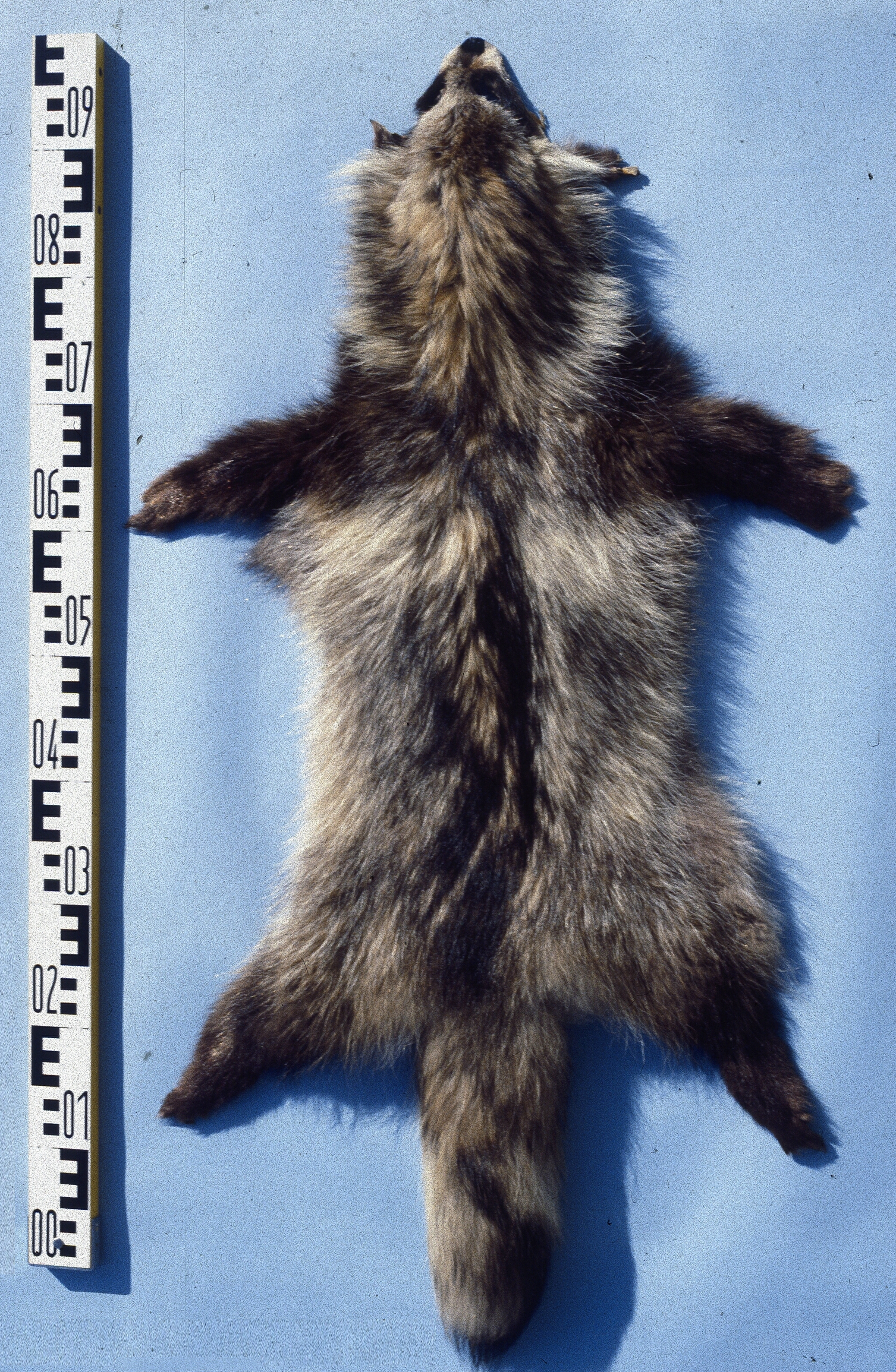 Raccoon dog fur skin (Nyctereutes procyonoides). Fur skin collection, Bundes-Pelzfachschule, Frankfurt/Main, Germany